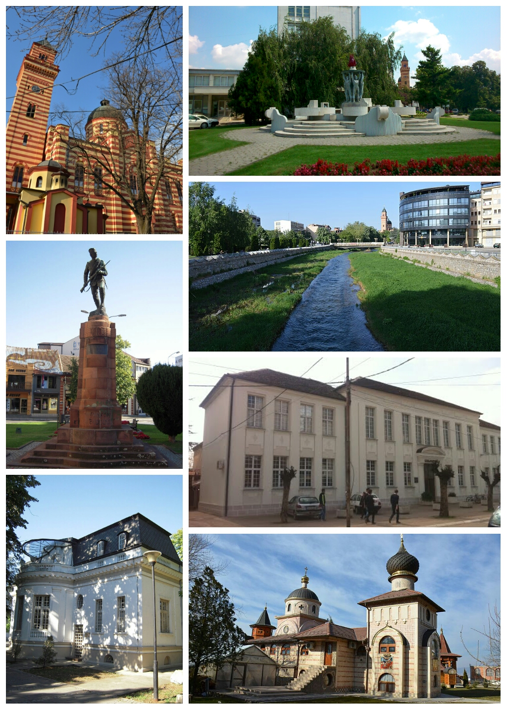 Paraćin- photomontage (Left-Church of the Holy Trinity, A monument to warriors who died in the First World War, Сultural center in Paracin) and (Right- Fountain of freedom, Crnica river, Library Vicentije Rakic, Lešje monastery)